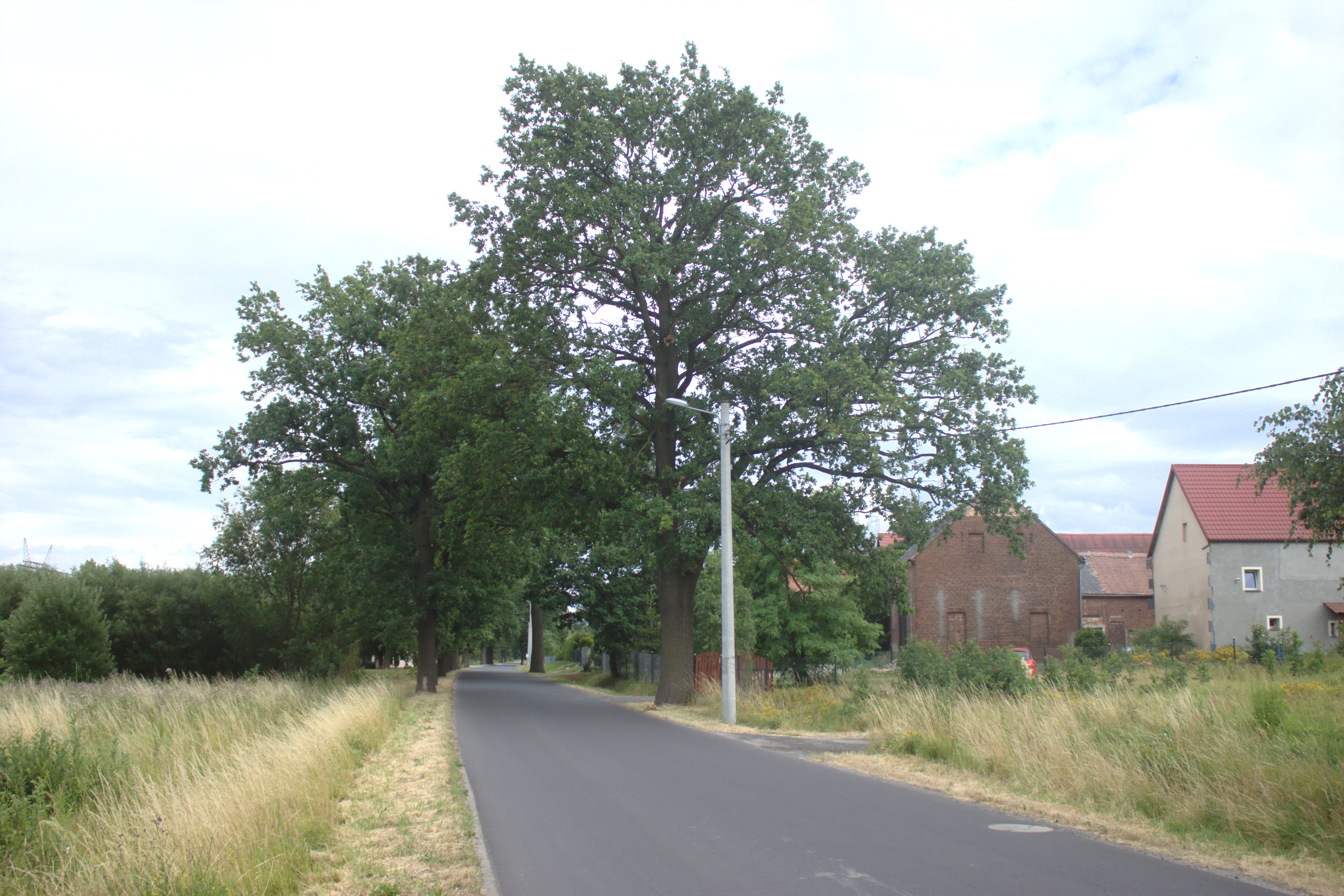 This photograph was created as a part of Wikiexpedition Lower Silesia, a project supported by Wikimedia Poland grant.